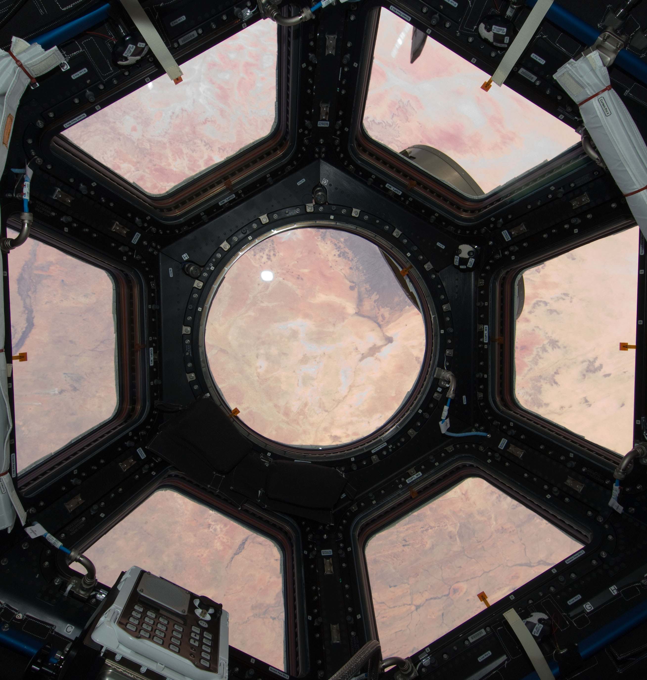 International space station module Cupola with its protective shutters open. NASA description from source: ISS022-E-066972 (17 Feb. 2010) --- This image is the first taken through a first of its kind "bay window" on the International Space Station, the seven-windowed Cupola. The image shows the Sahara Desert spread out through the array of windows. The Cupola will house controls for the station robotics and will be a location where crew members can operate the robotic arms and monitor other exterior activities.